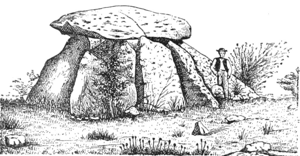 Anta of Paredes near Evora